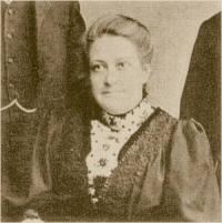 Mary Jane (Polly) Wigglesworth (née Featherstone), Smith Wigglesworth's wife